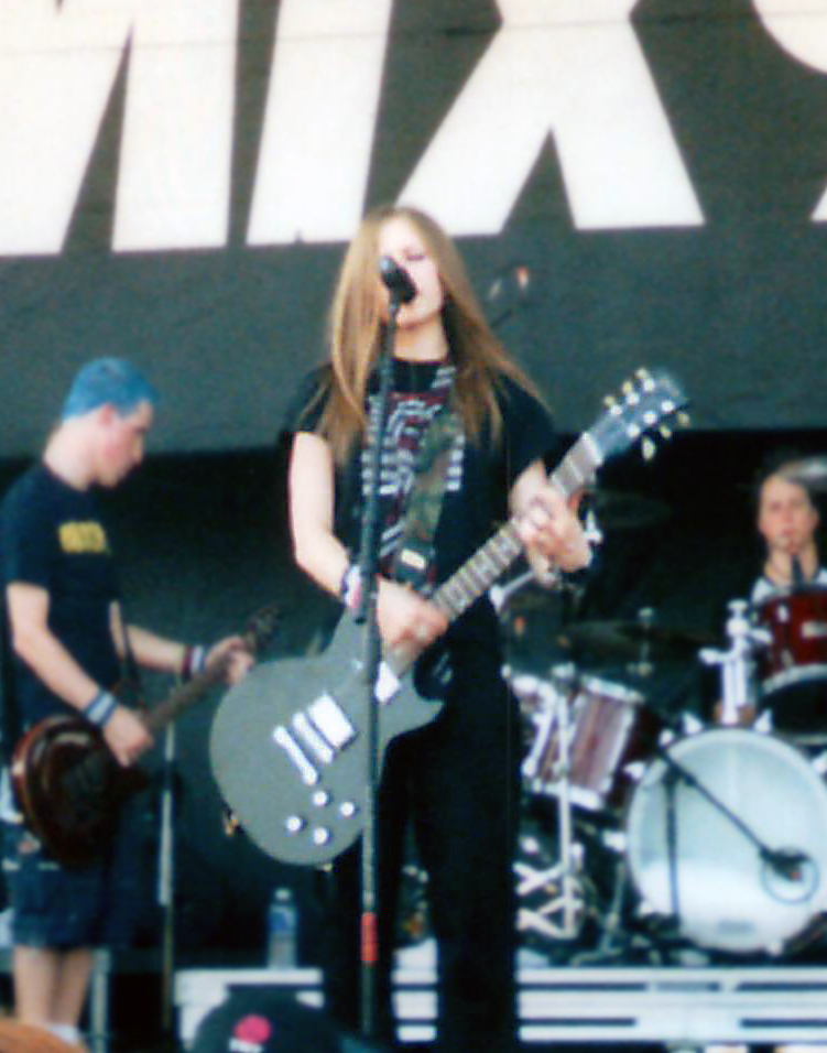 Avril Lavigne in a concert in 2002